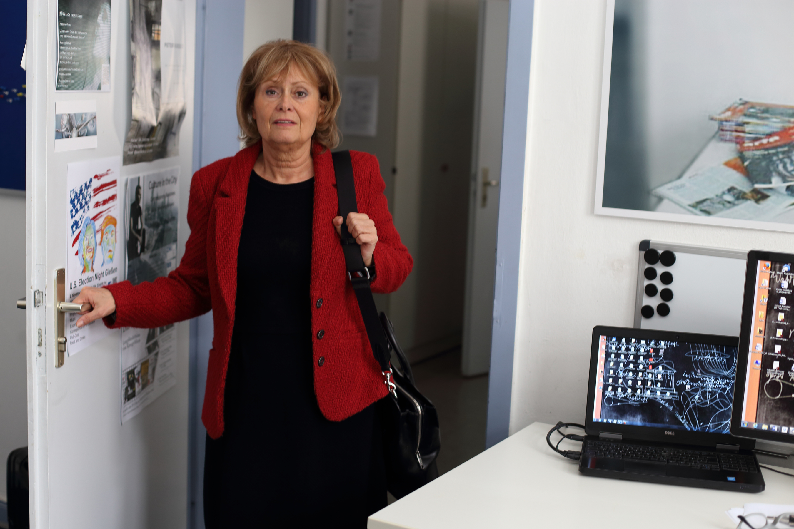 Sabine Heymann, 11.04.2017 ZMI